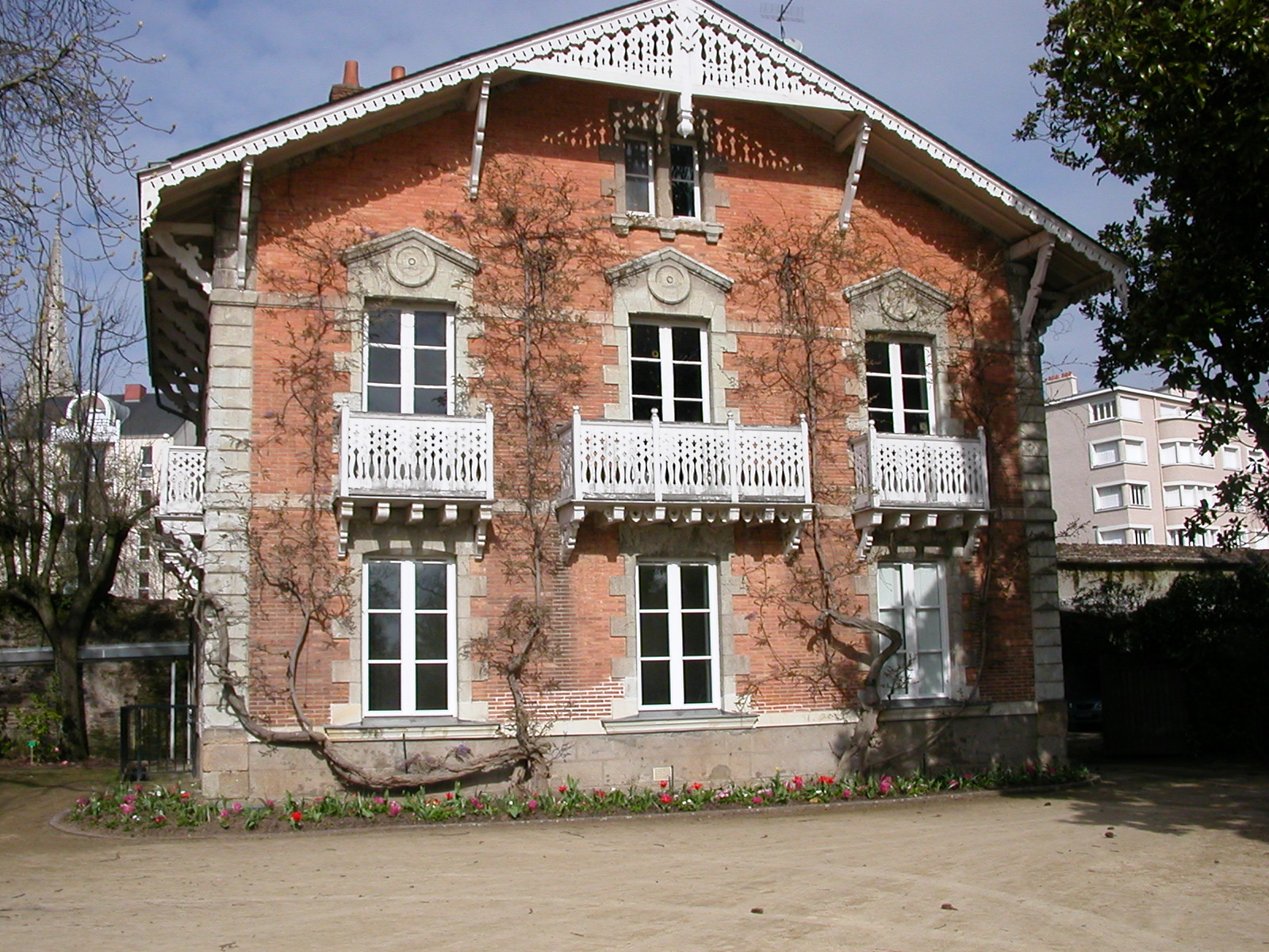 Porter's house of the Jardin des plantes in Nantes